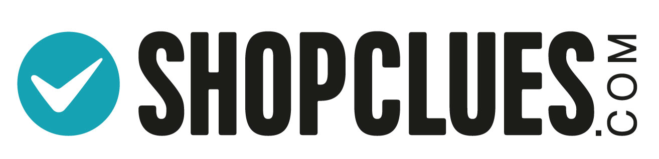 Shopclues logo